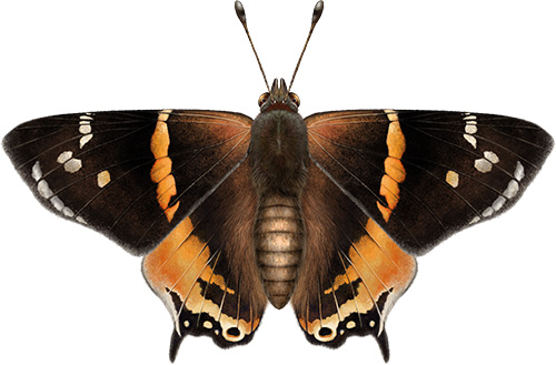 Artist's reconstruction of the fossil butterfly Prodryas persephone based on the related genera Hypanartia and Antanartia.